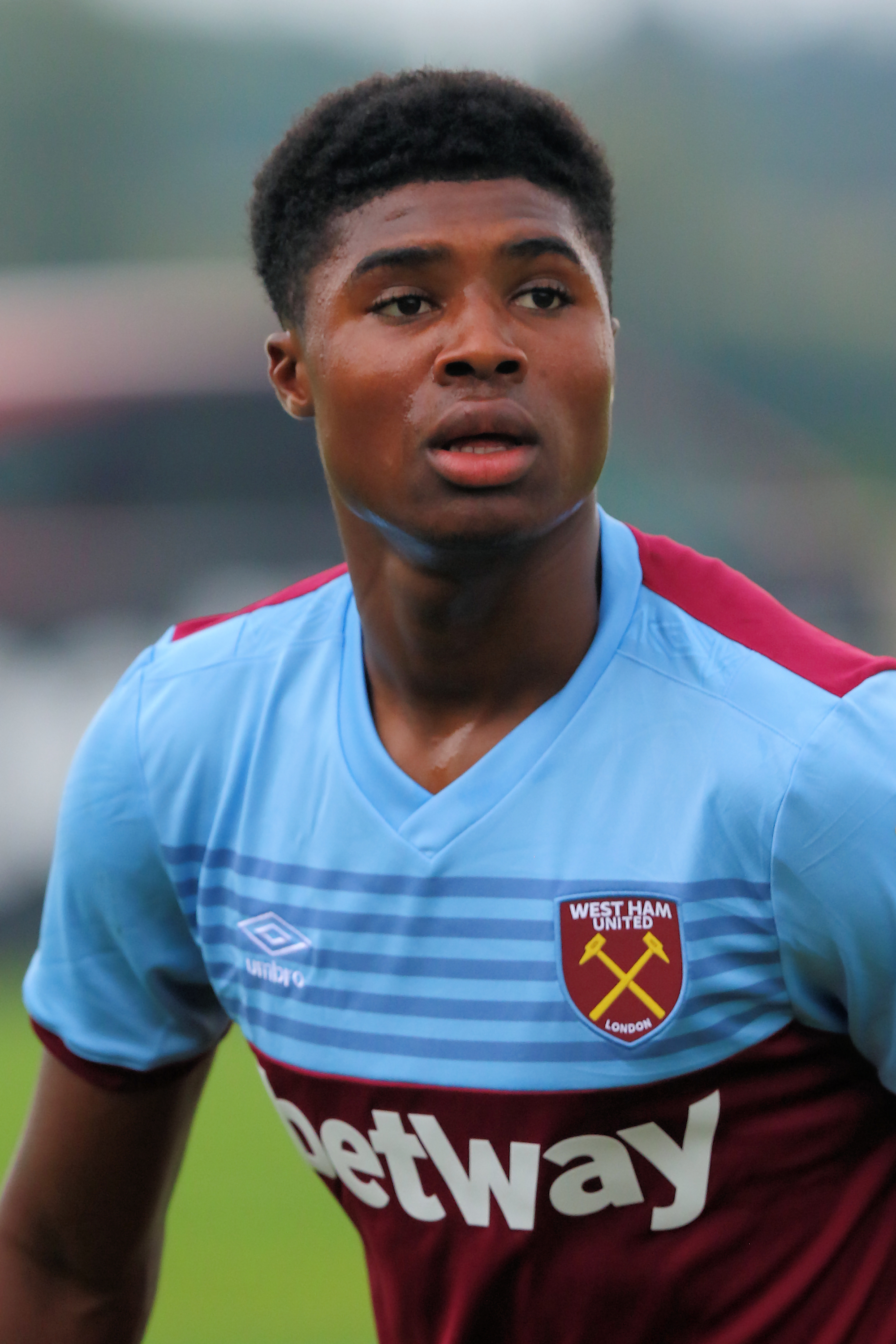 Friendly match Hertha BSC (blue-white shirts) vs. West Ham United (red-blue shirts) at 31-07-2019 3-5 (3-2) in the Sonnenseestadium in Ritzing. – The photo shows Ben Johnson (West Ham United).